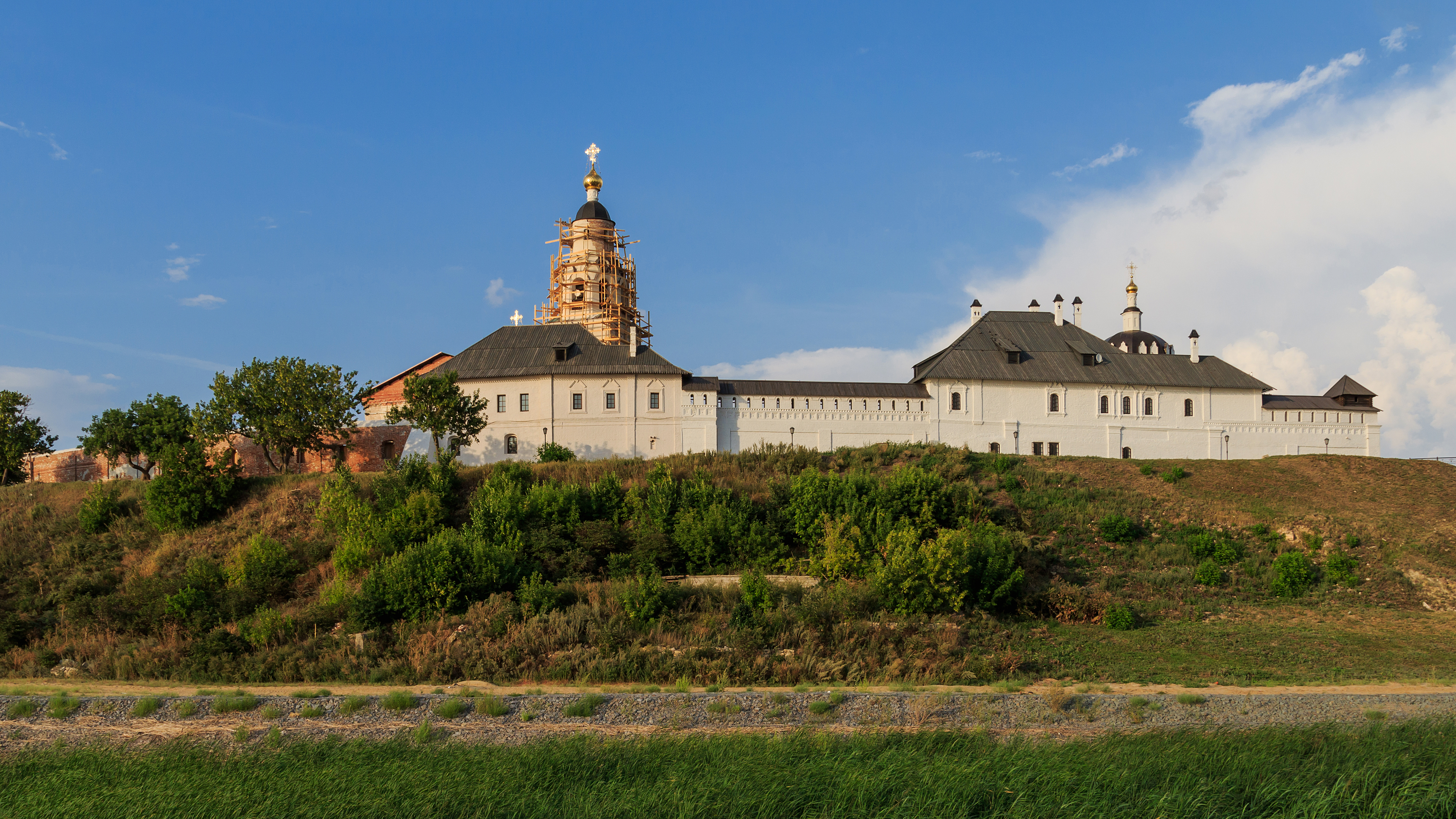 Exterior view of Uspensky Monastery. Sviyazhsk, Tatarstan, Russia.